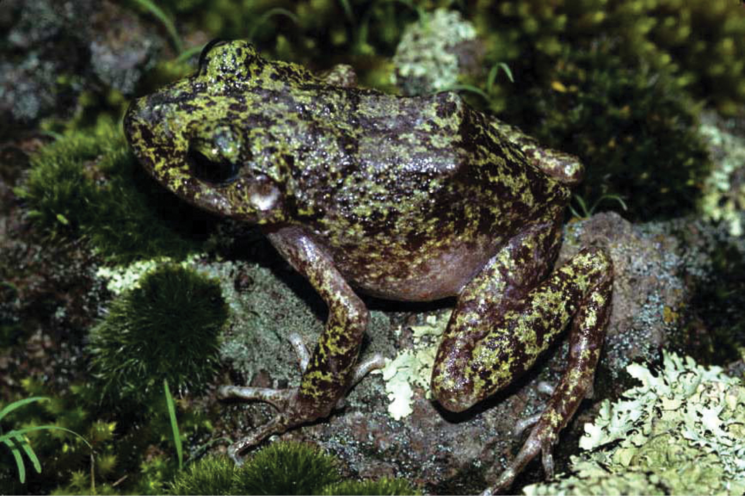 Craugastor tarahumaraensis. Ocampo, Chihuahua. Photo courtesy of Peter Heimes